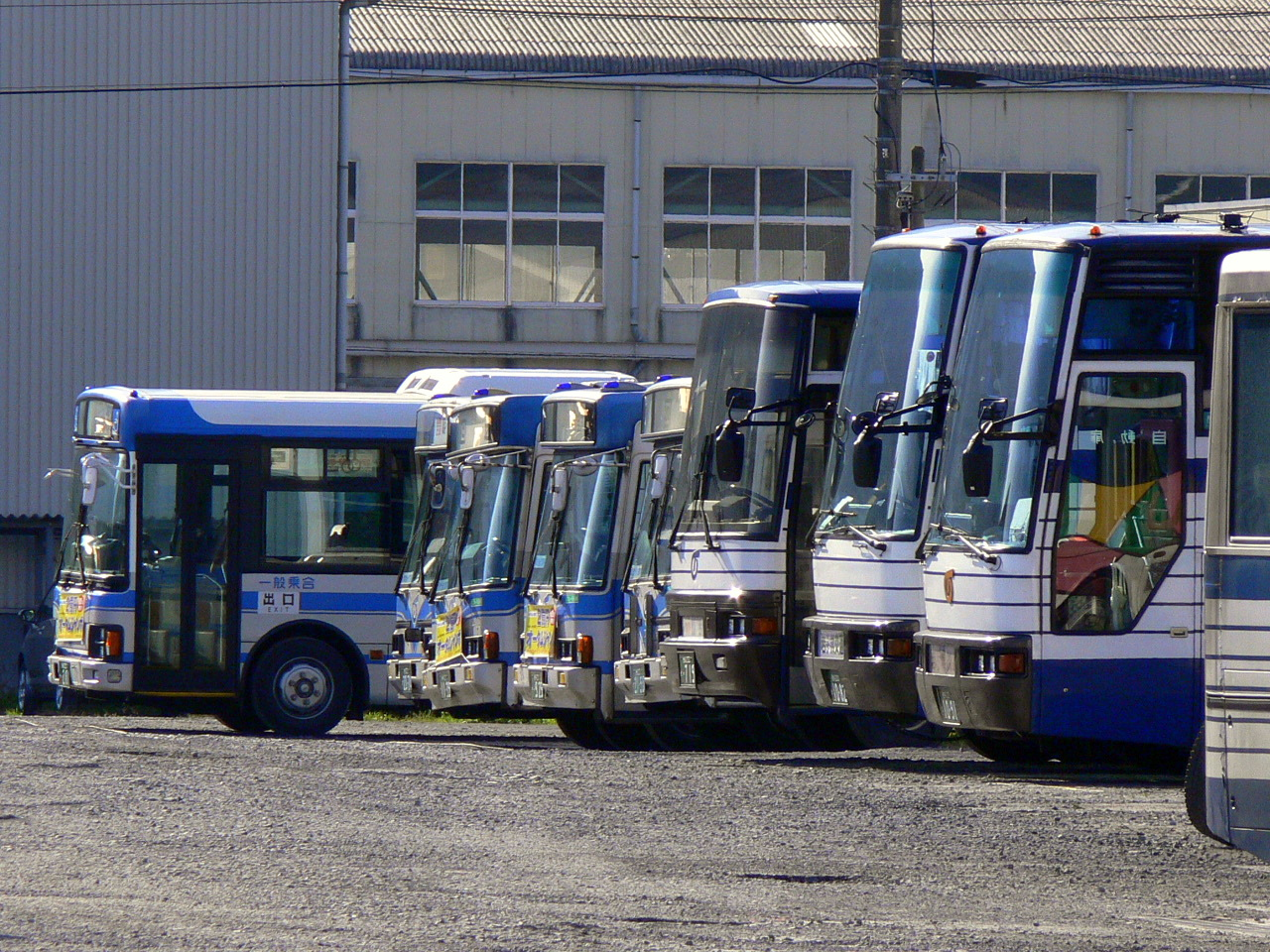 Buses at the Iwateken Kotsu Ofunato Depot in Ofunato City, Iwate Prefecture, Japan